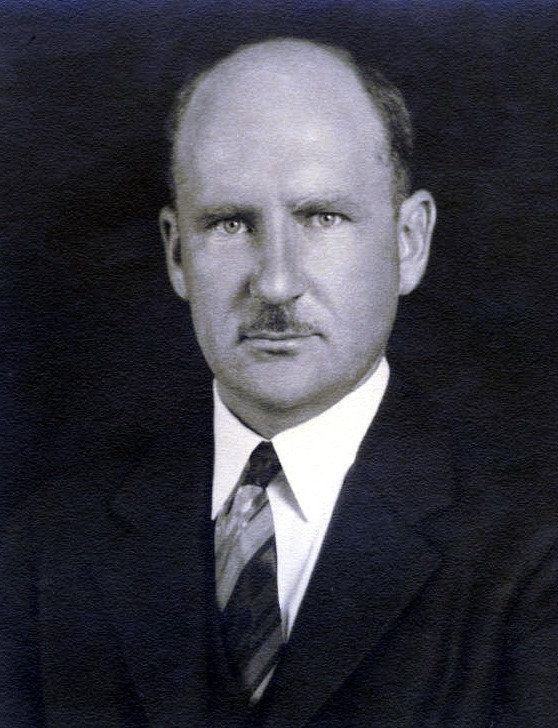 William Halstead Sutphin 1935 congressional portrait